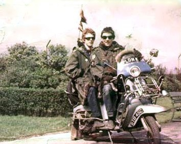 Old Mods photo